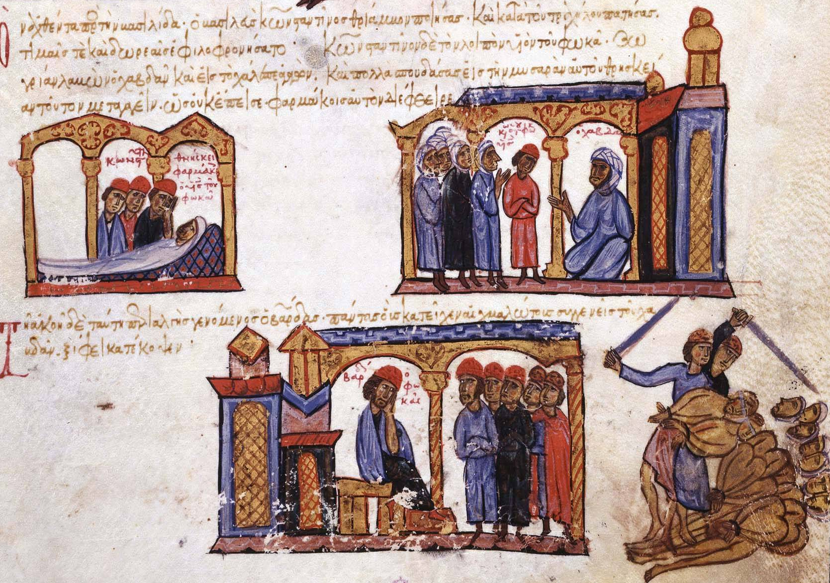 Constantine Phokas dies poisoned in Aleppo by the Hambdan, and his father Bardas orders the execution of all Arab prisoners